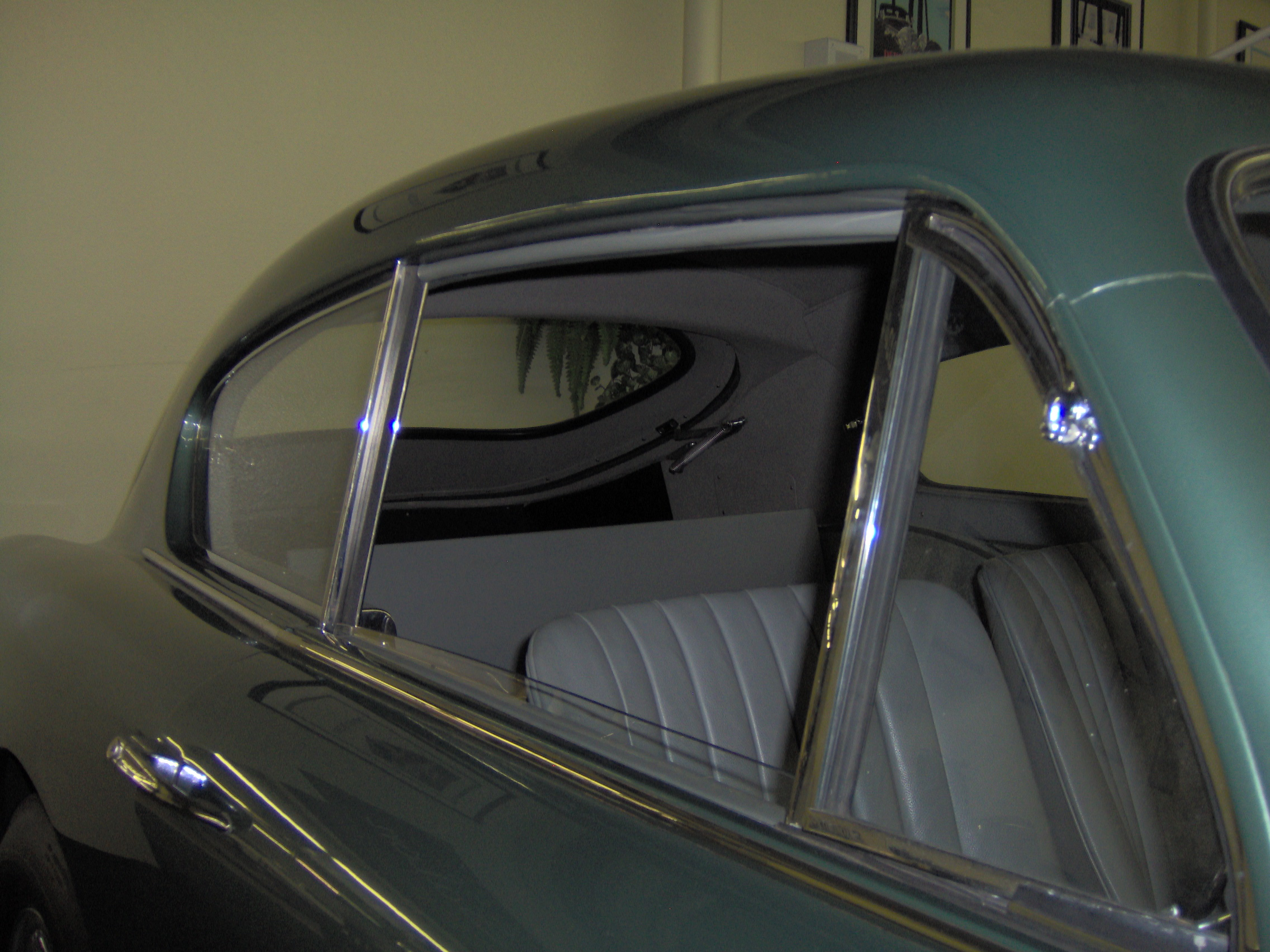 1958 Aston Martin DB24 Mark III Coupe